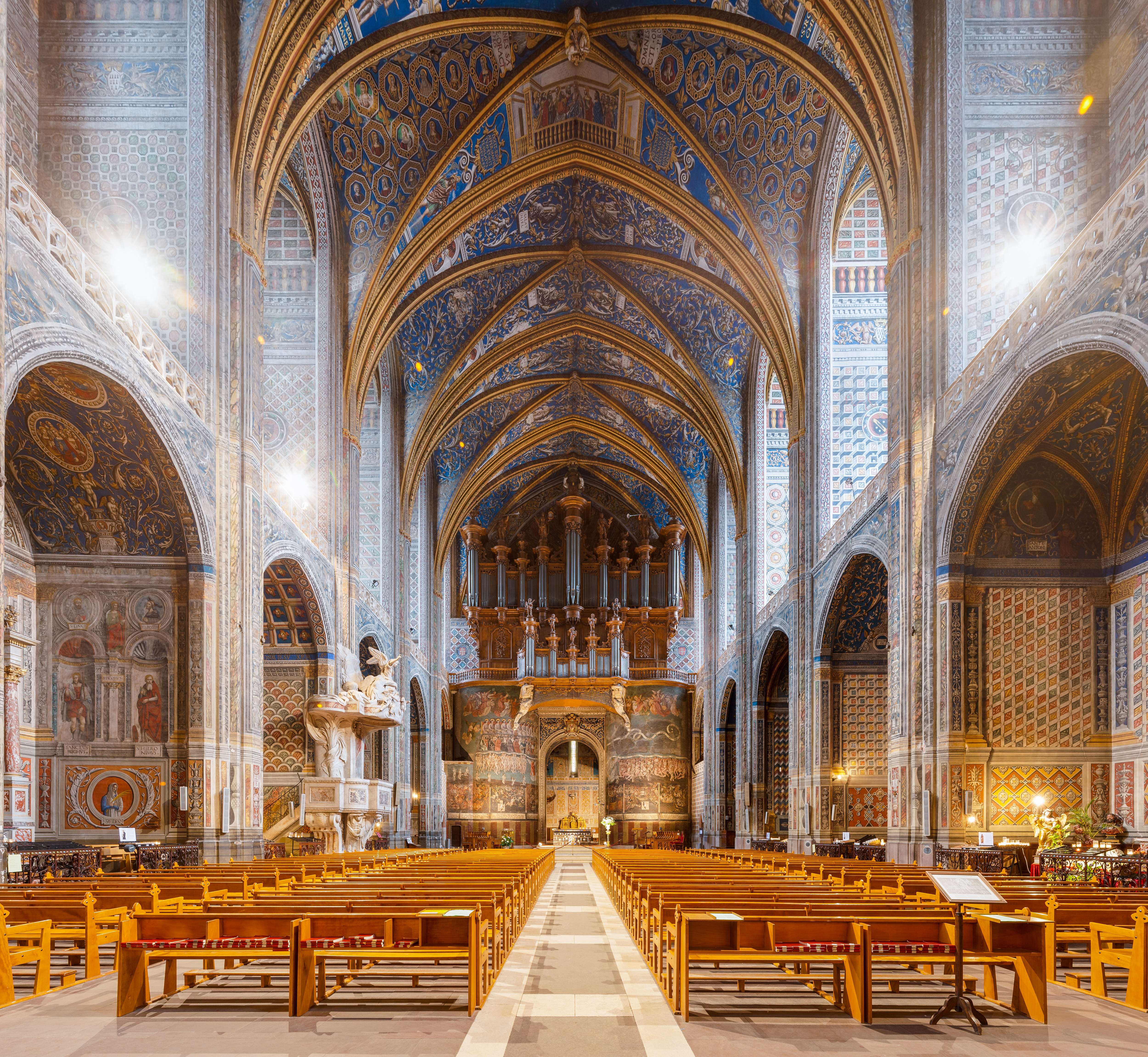 Nave of Albi Cathedral, and its organ, Albi, Tarn, France.